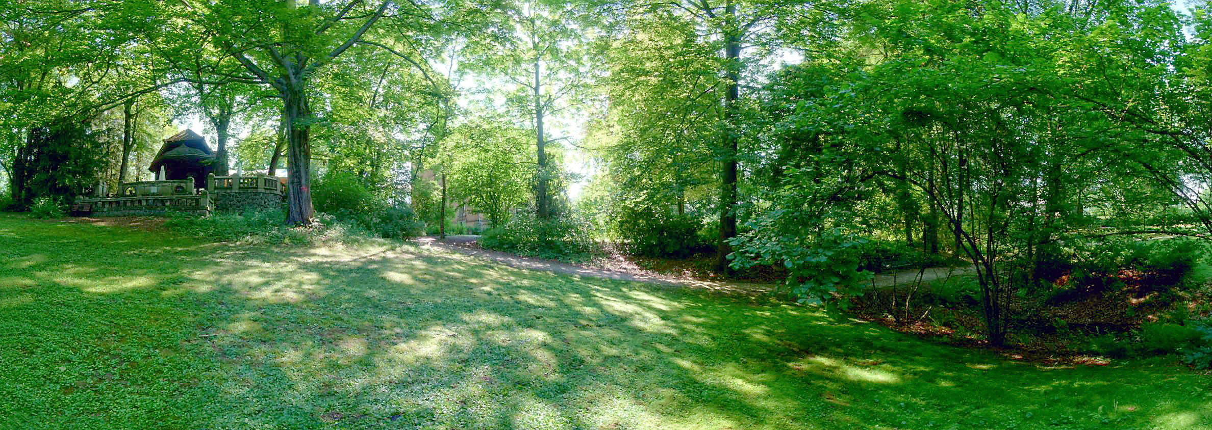 Grassland and some pathways in Dreslers Park at Kreuztal (Germany)